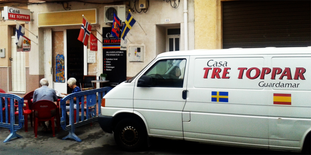 Skandinavian shop "Casa Tre Toppar" in Guardamar del Segura, Province of Alicante, Spain